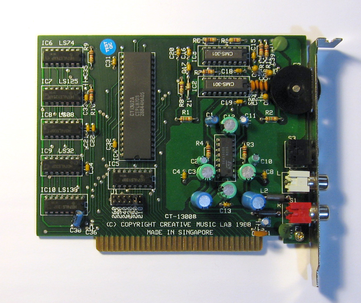 Picture of a C/MS sound card ISA